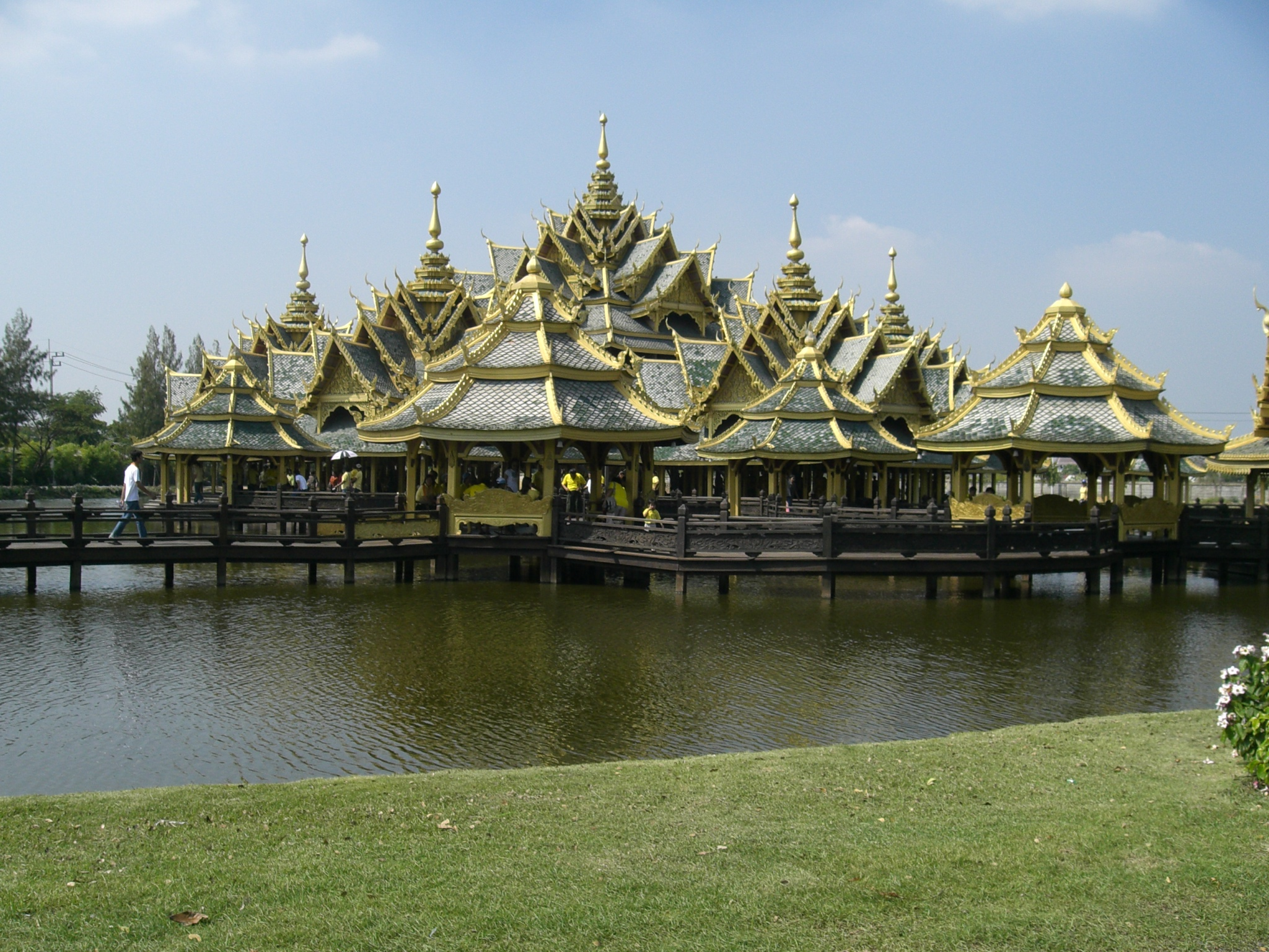 "Pavilion of the Englightened" at Mueang Boran ("Ancient City"), Samut Prakan, central Thailand